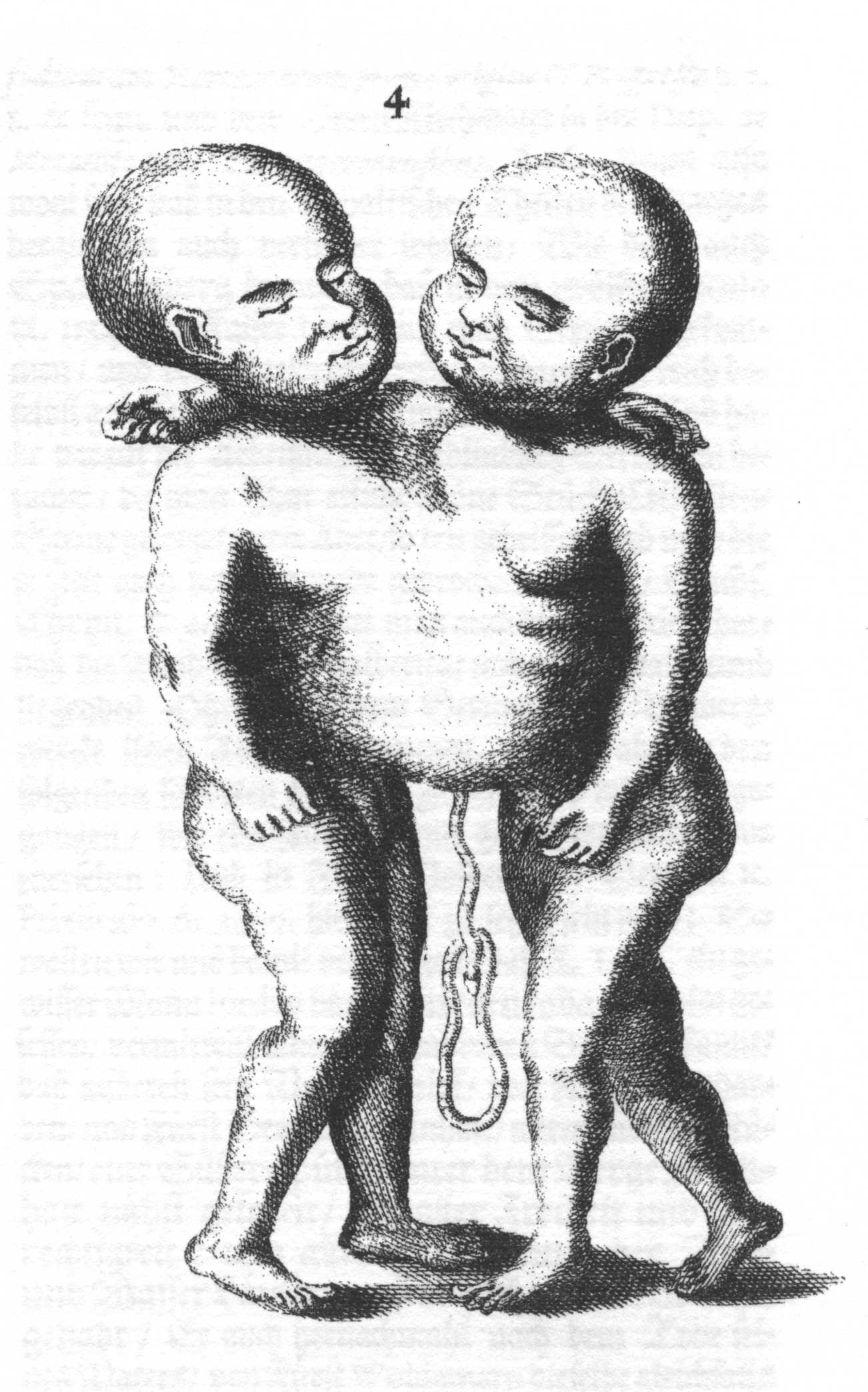 Conjoined Twins of Dessau, 1695, Bekmann